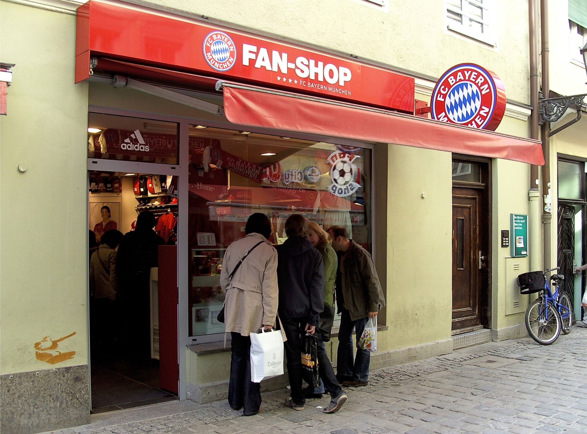 The Fan shop of FC Bayern München at Bräuhausstraße in Munich.